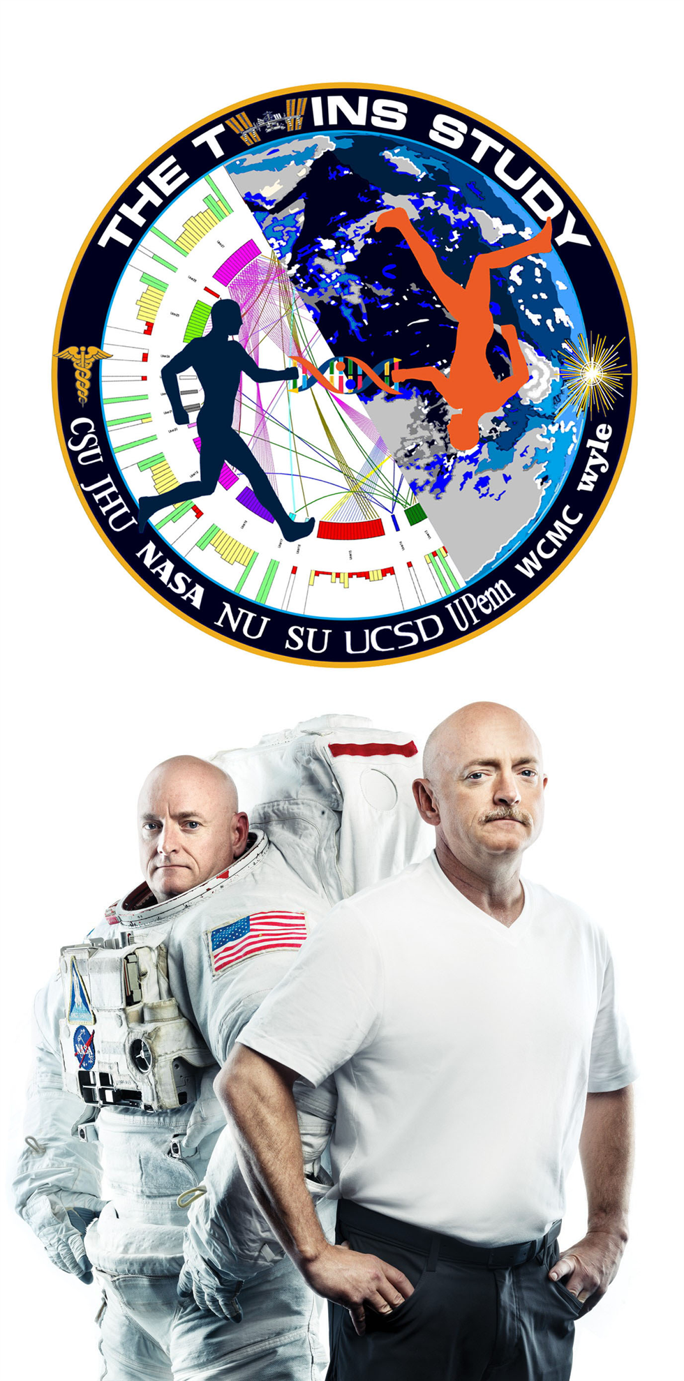 Logo of NASA's twin study 2015-2016, and its subjects, Scott and Mark Kelly